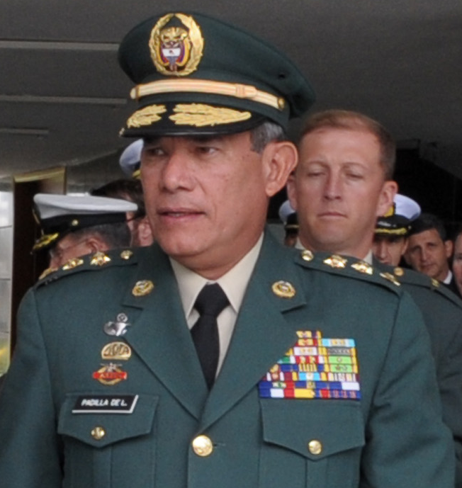 U.S. Navy Adm. Mike Mullen, chairman, joint chiefs of staff, and Colombian Gen. Freddy Padilla, chief of defense, exit the National Defense Ministry in Bogota, Colombia, March 5, 2009. Mullen is visiting the country to meet with senior Colombian officials to discuss ongoing U.S. and Colombian relations. (U.S. Air Force photo by Master Sgt. Adam M. Stump/Released)